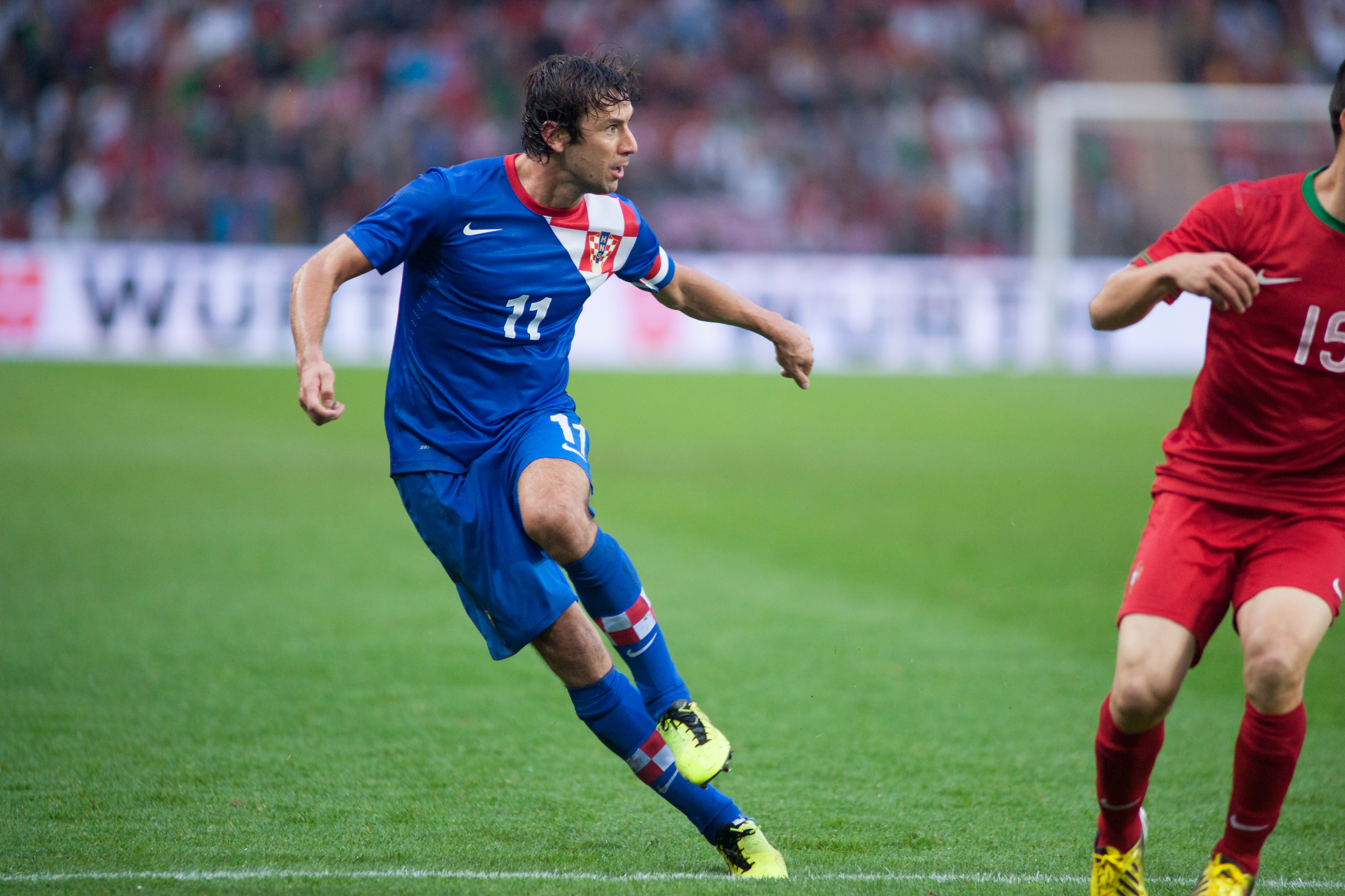 Croatia vs. Portugal, 10th June 2013